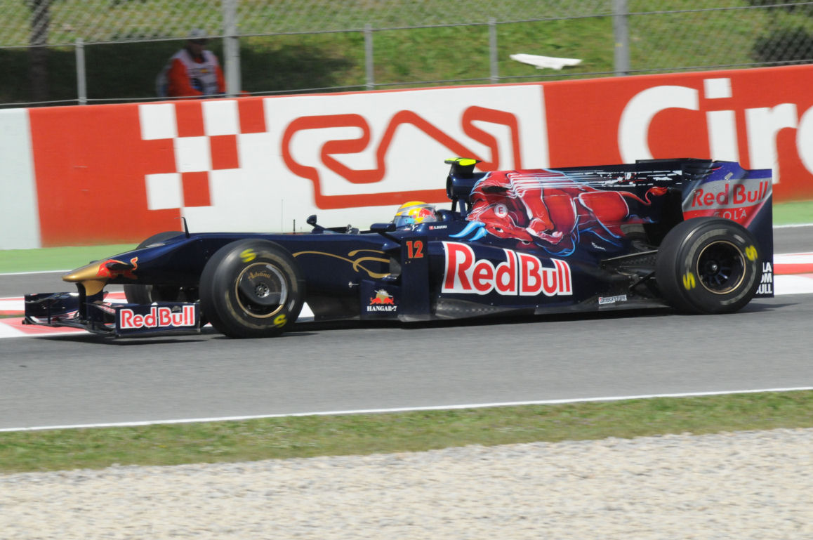 Sébastien Buemi during free practice in Spain 2009